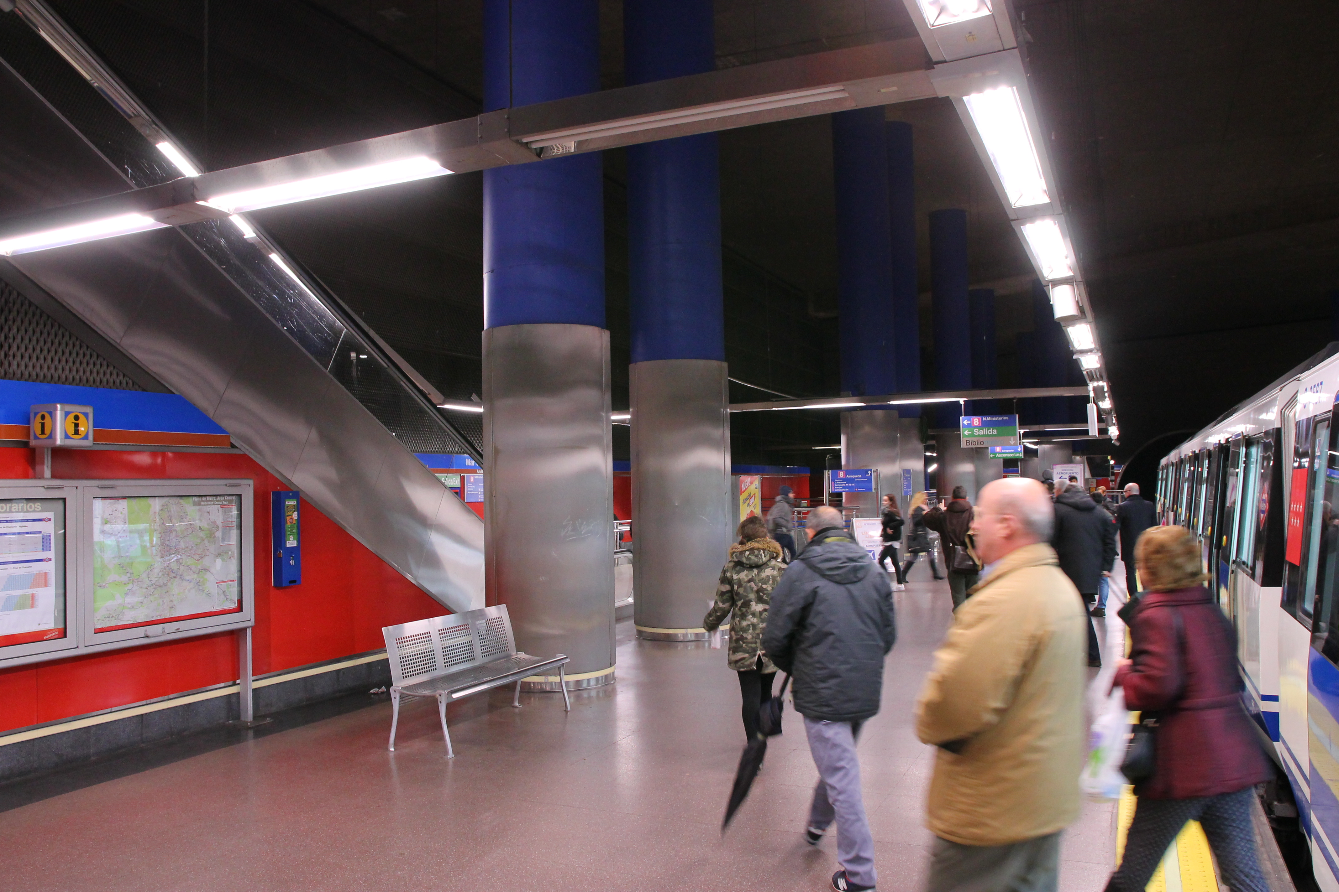 Mar de Cristal station. Madrid Metro.